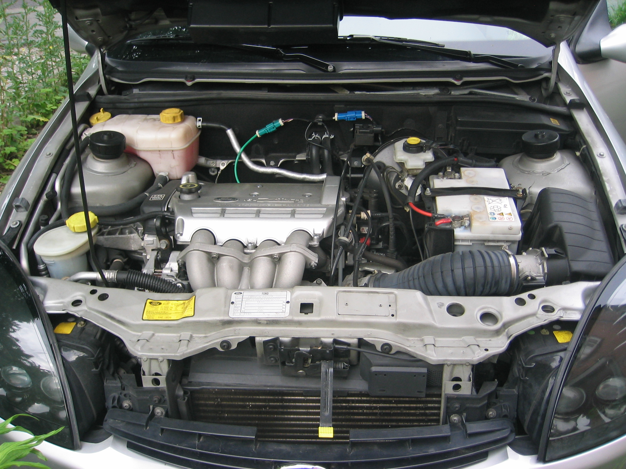 Ford Puma